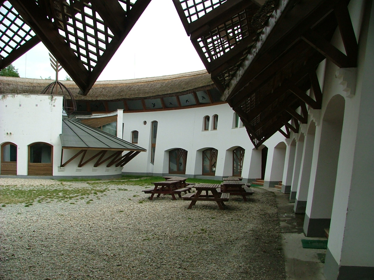 Sarród; The Heronnest, the seat of the Fertő-Hanság National Park